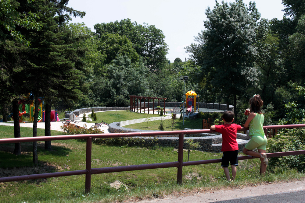 Zhelyava park